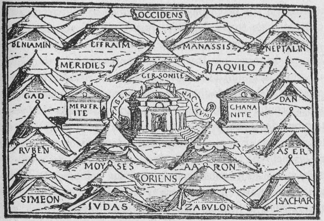 Tribes of Israel. Work of Holbein